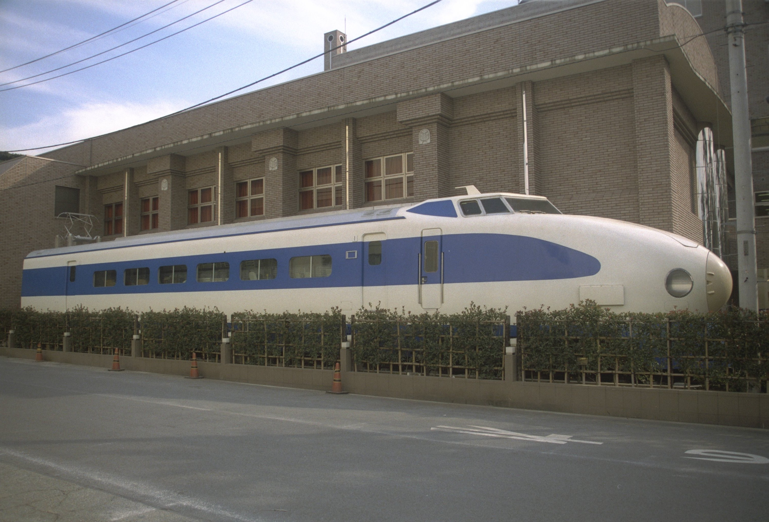 Preserved experimental Class 951 shinkansen car 951-1 at Hikari Plaza, Kokubunji in Tokyo